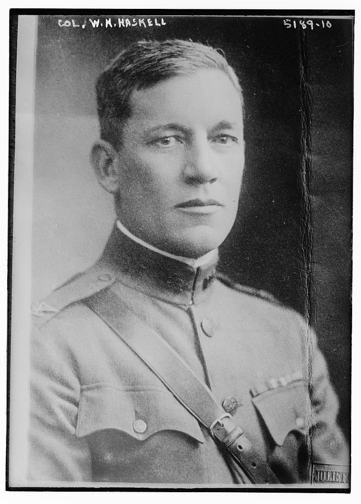 William Nafew Haskell Jr. circa 1918